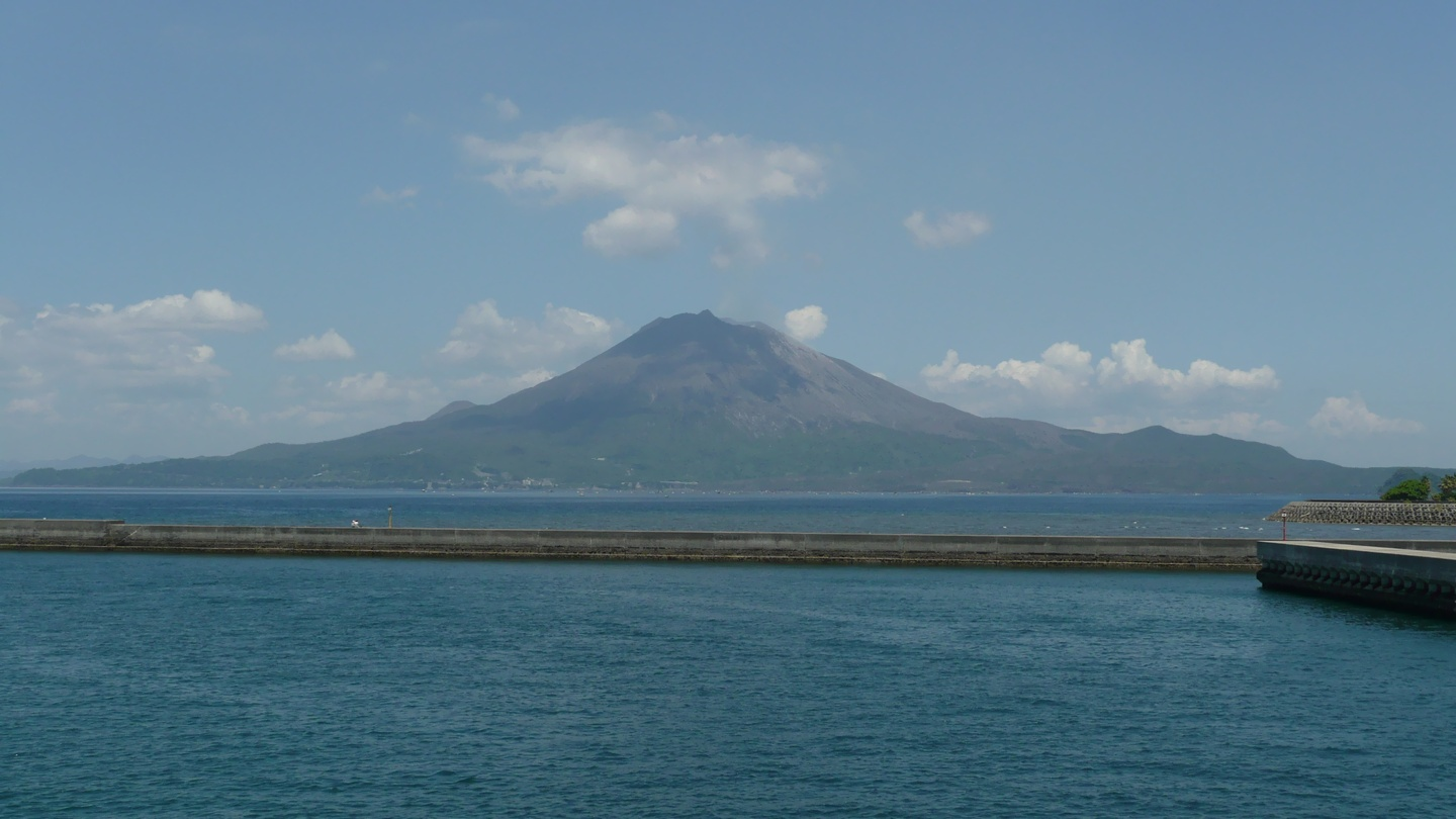 Sakurajima from Tarumizu Port